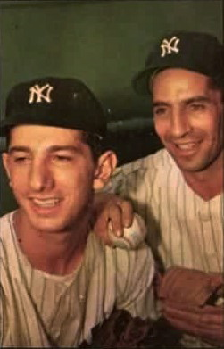 New York Yankees players Billy Martin (left) and Phil Rizzuto in about 1953.